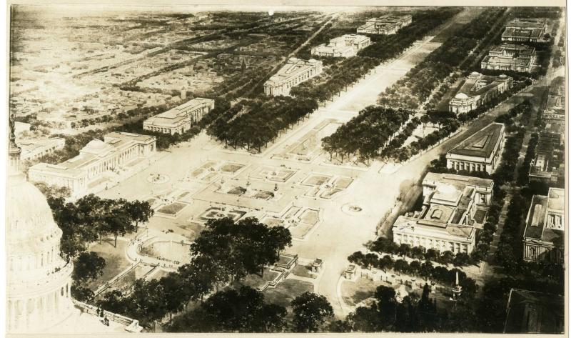 Washington DC proposed plan of public buildings. Copy of drawing.